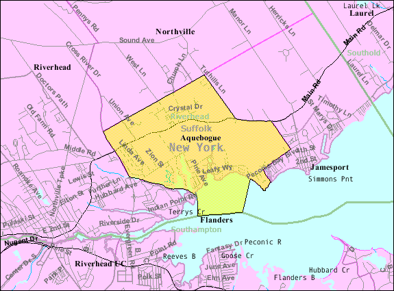 U.S. Census 2000 reference map for Aquebogue